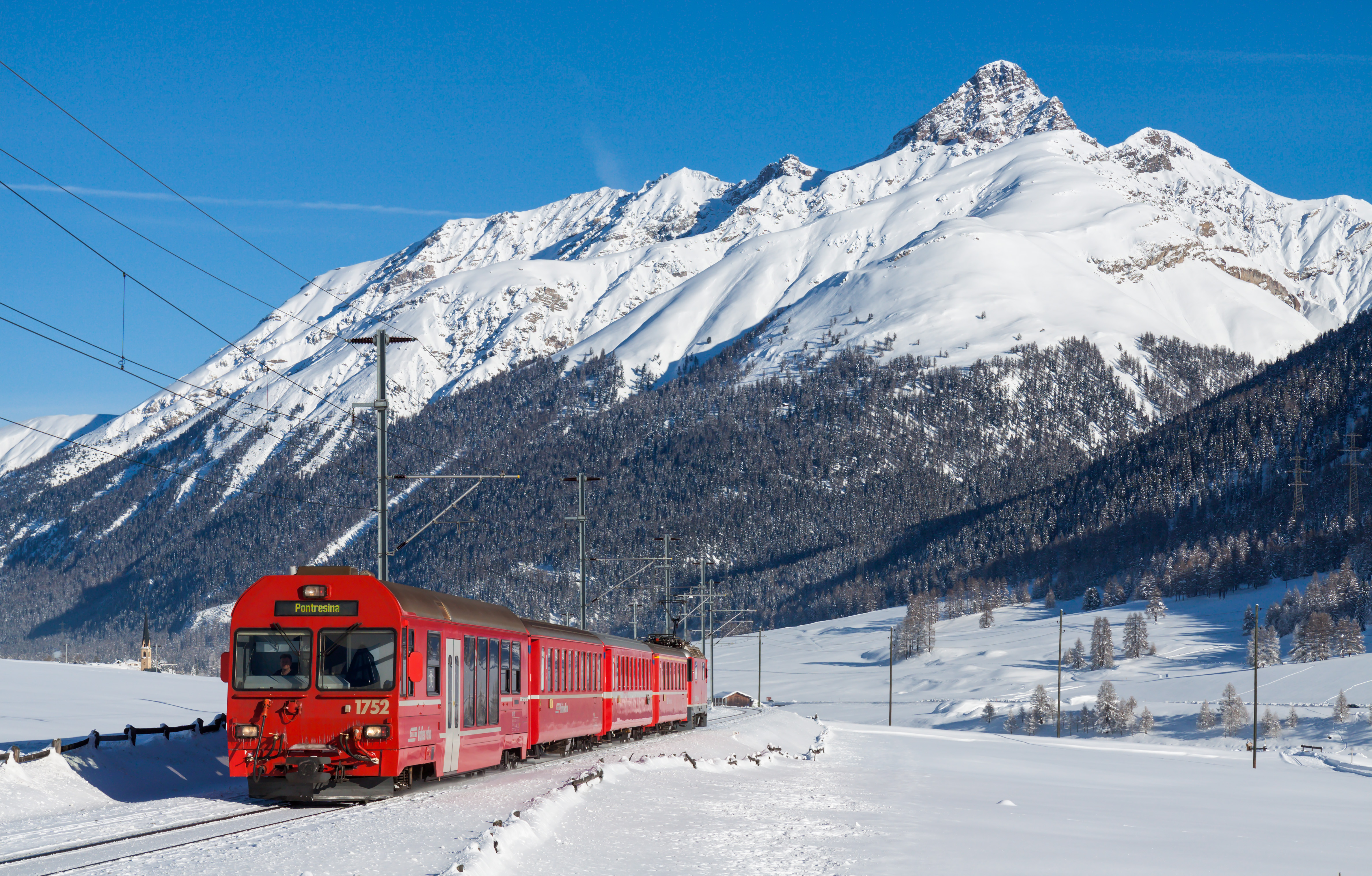 Narrow gauge RhB push-pull train between S-chanf and Zuoz with the BDt control car leading and a Ge 4/4II pushing.